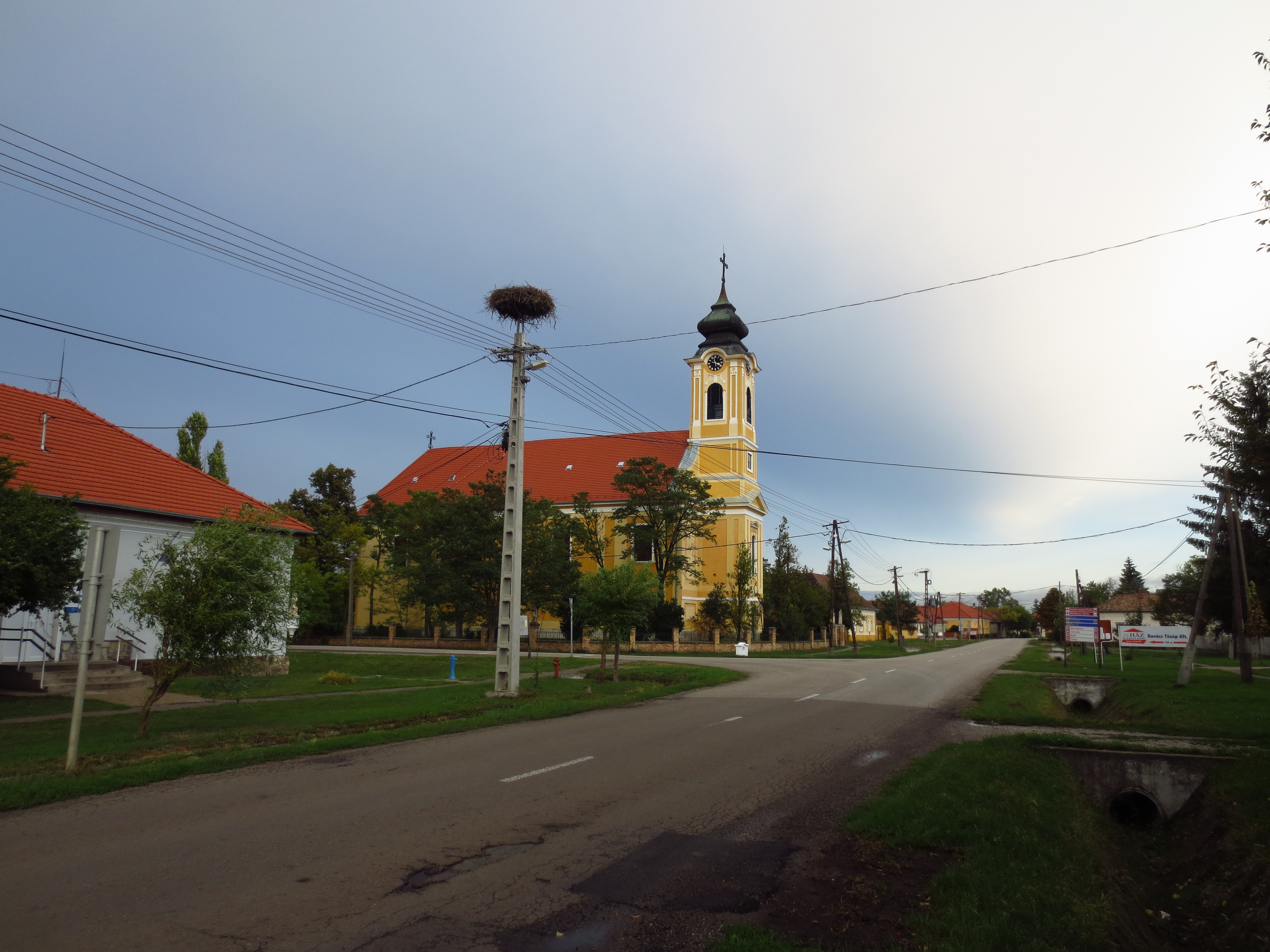 Church of Immaculate Conception in Tiszanána, Heves County, Hungary.